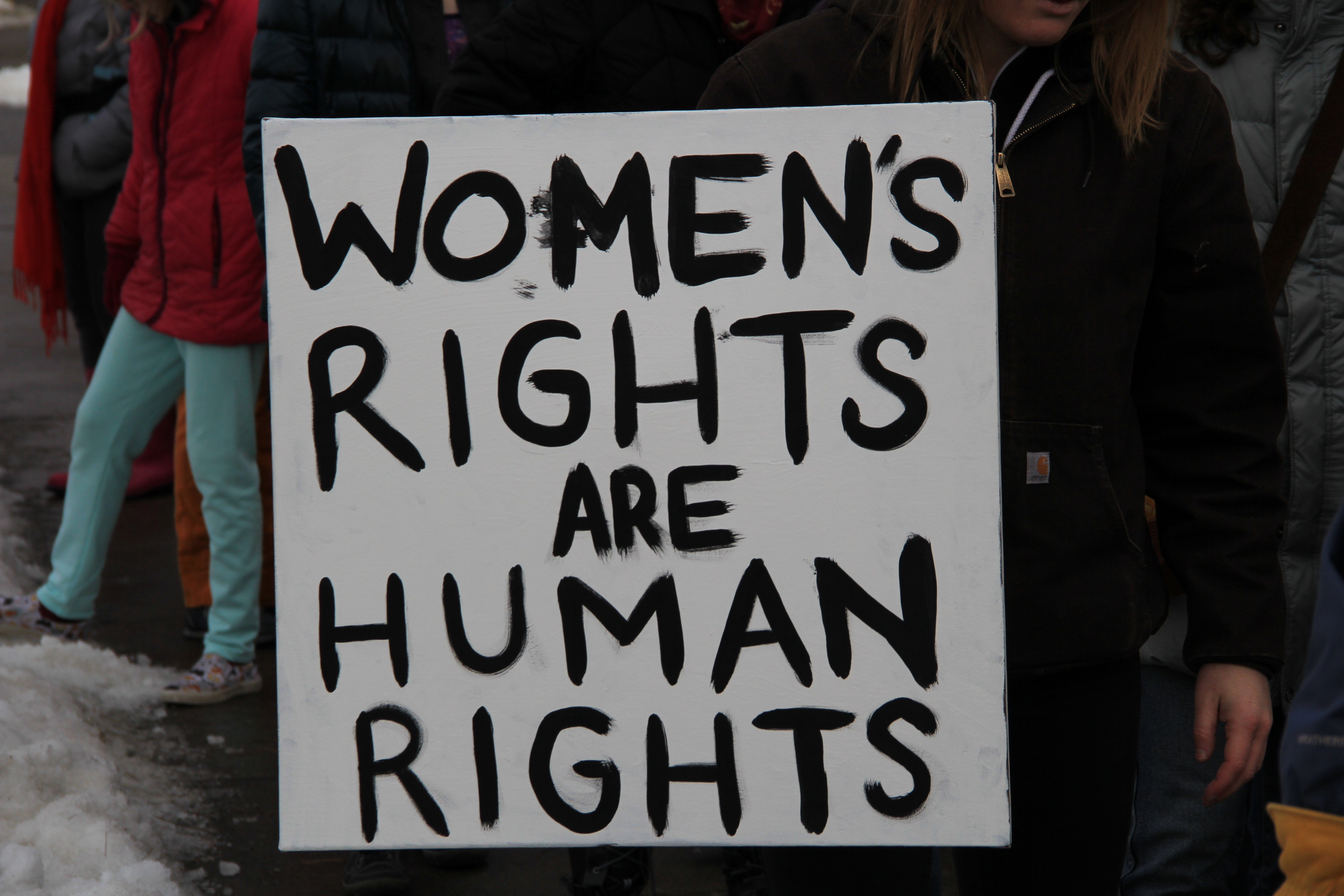 2018 Women's March in Missoula, Montana. Sign, "Women's rights are human rights."